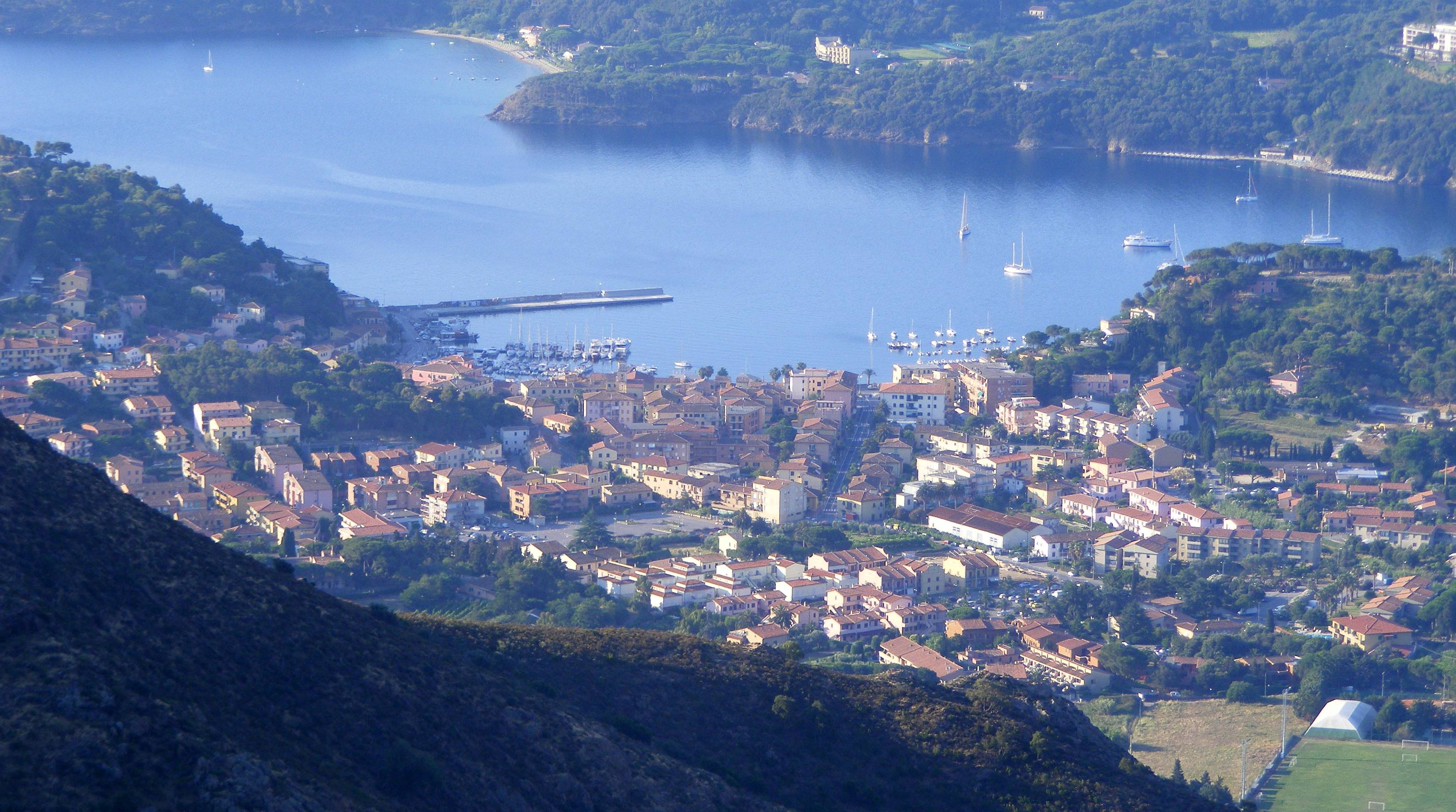 Porto Azzurro (LI, Italy) from Monte Castello